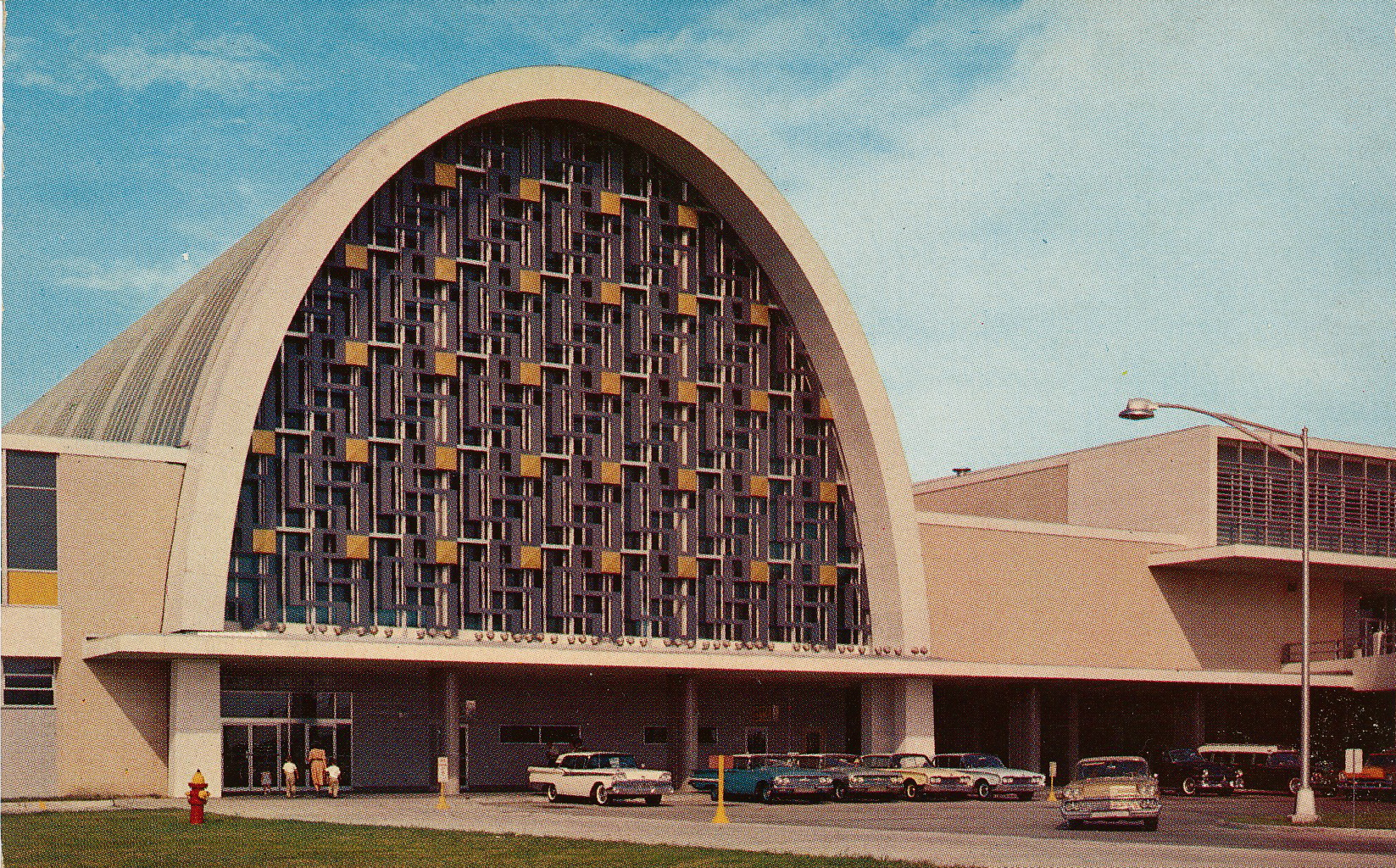 Postcard view, main entrance of New Orleans International Ariport Passenger Terminal Building, New Orleans.